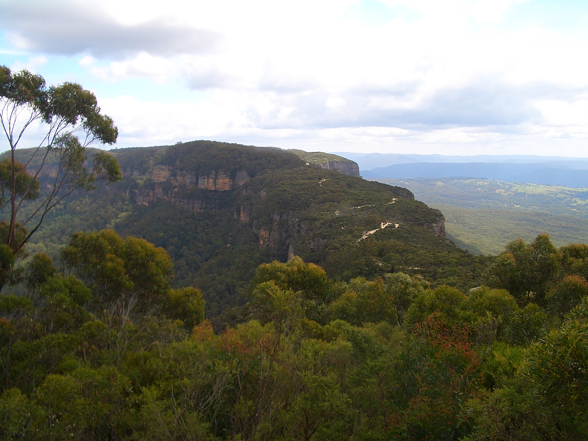 Narrow Neck Plateau, seen looking SW from Narrow Neck Lookout, on the SW outskirts of Katoomba. Megalong Valley is to the right of the "neck", Jamison Valley to the left.